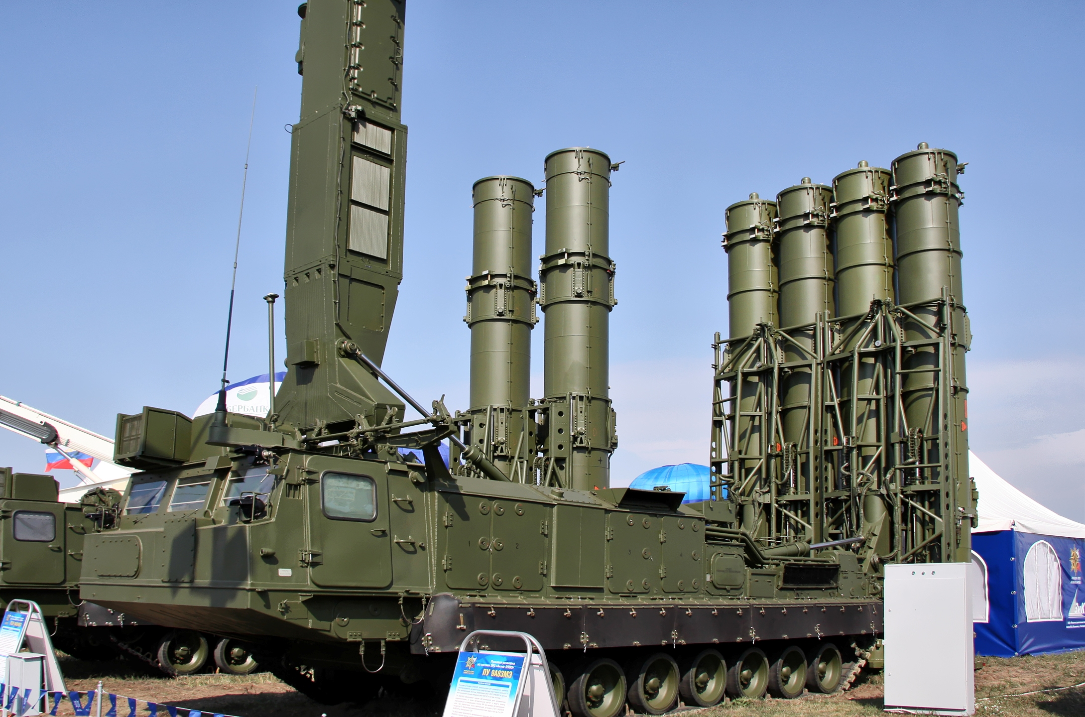 9A83ME launcher from the S-300VM Antey-2500 missile system.